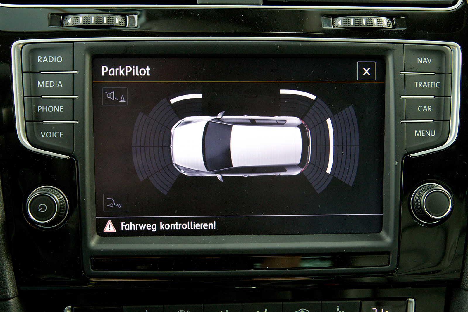 Parking assist